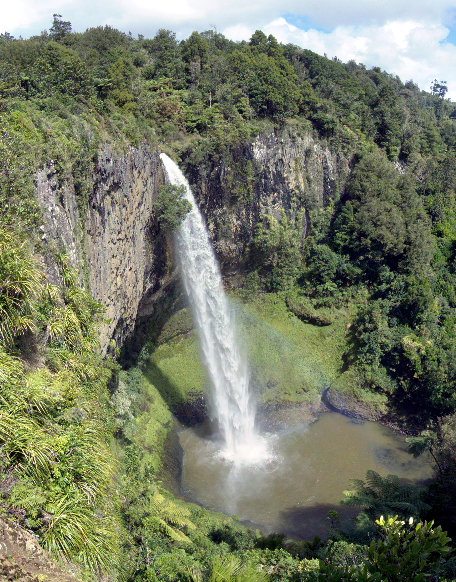 A photograph of Bridal Veil Falls (Maori - Waireinga Falls), Waikato, New Zealand